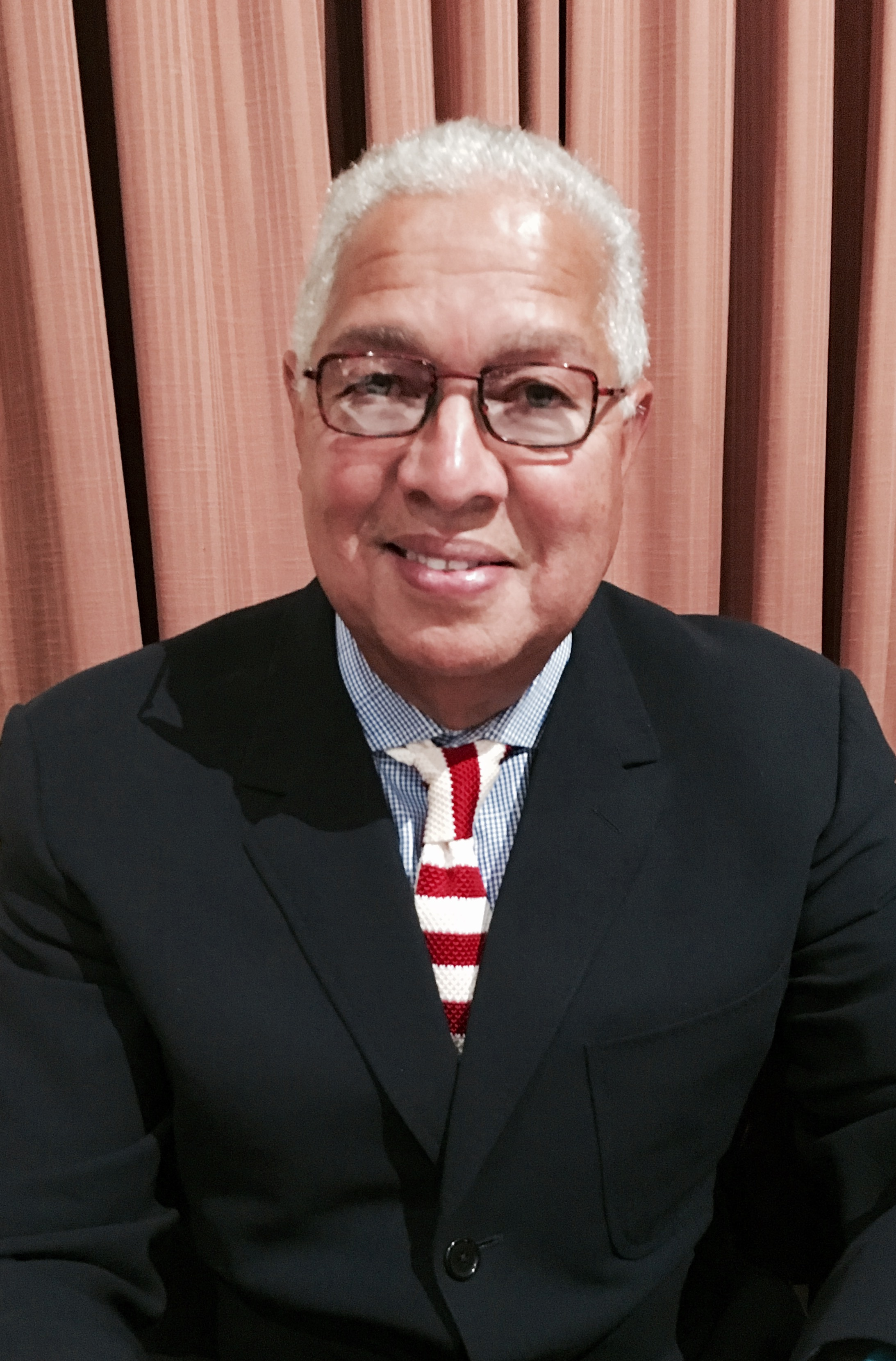 Bernard Kinsey of The Kinsey African American Art and History Collection and The Bernard and Shirley Kinsey Foundation for Arts and Education. Photograph taken in Santa Rosa, California at the Sonoma County Office of Education conference Equity at the Core.